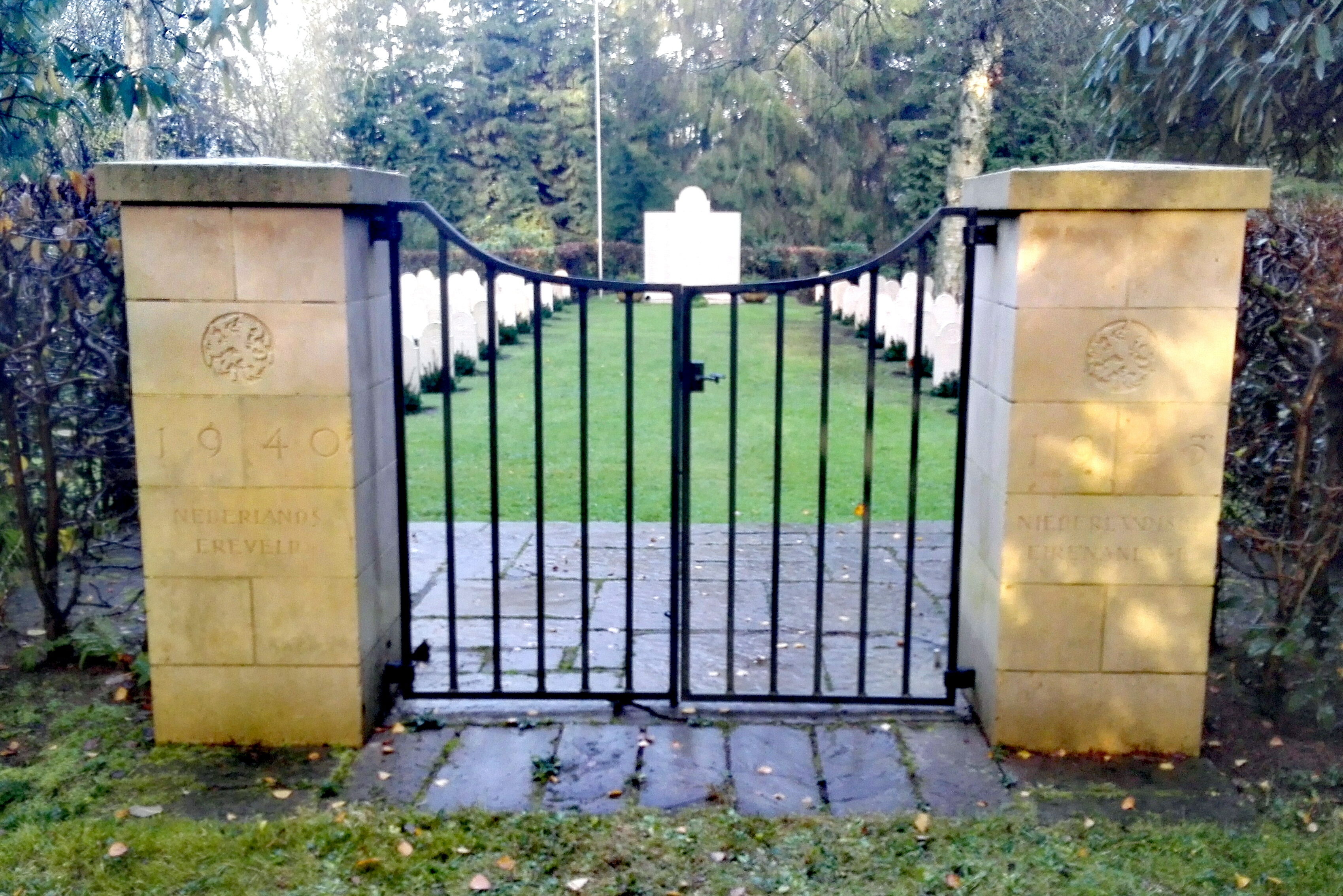 Nederlands Ereveld Lübeck within Vorwerker Friedhof. Entrance door.